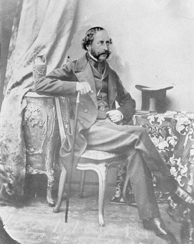 Crimean War 1854-56 Major General Sir Arthur Wellesley Torrens, KCB who commanded a Brigade of the 4th Division in the Crimea in 1854. He died from the effects of wounds in 1855.